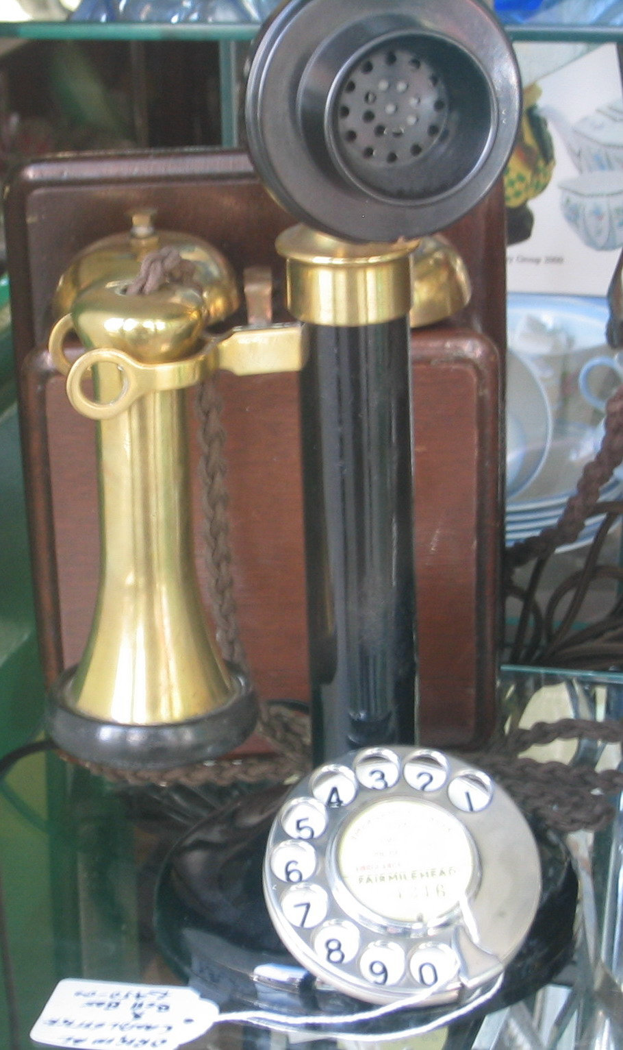 GPO Candlestick. Deben Dave 19:53, 19 September 2007 (UTC)